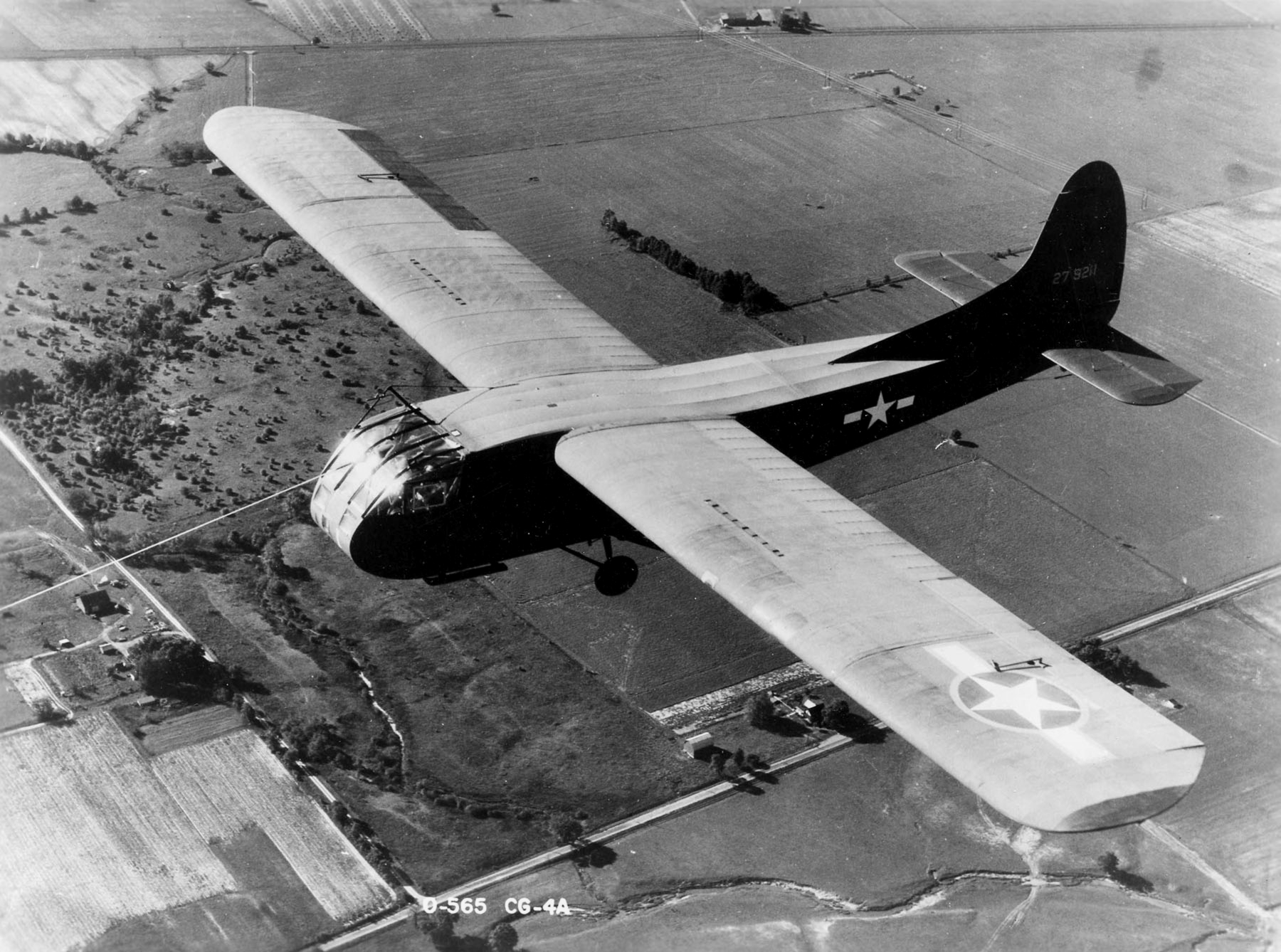 A U.S. Army Air Force Waco CG-4A-WO glider (s/n 42-79211) in 1943.